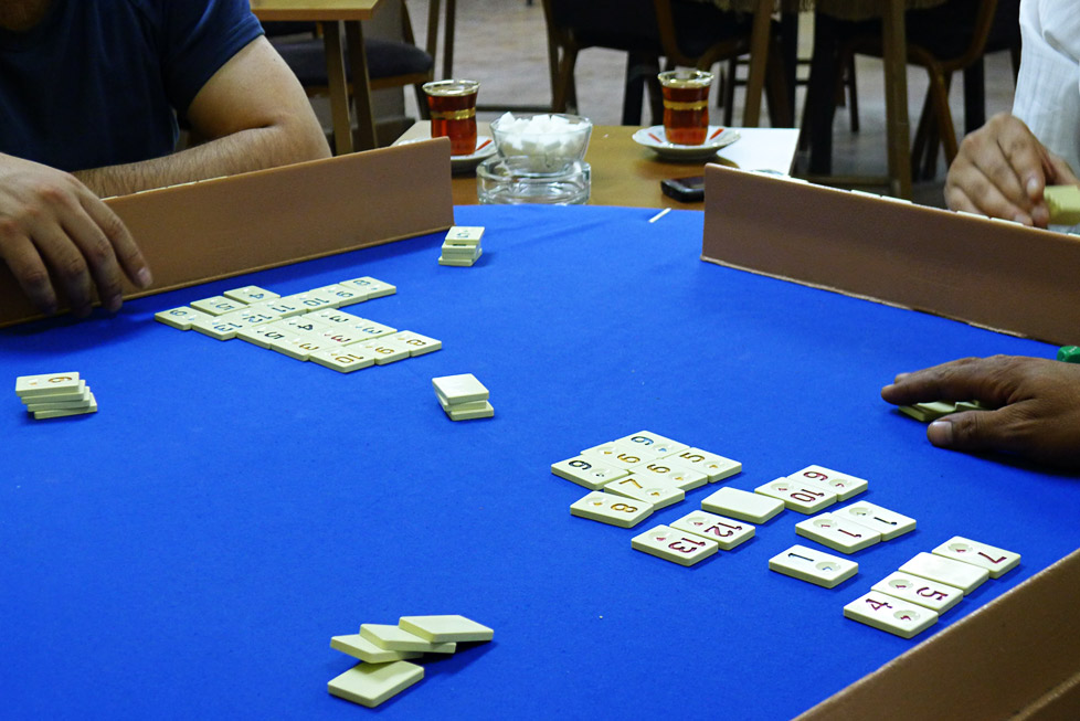 Turkish Okey Game